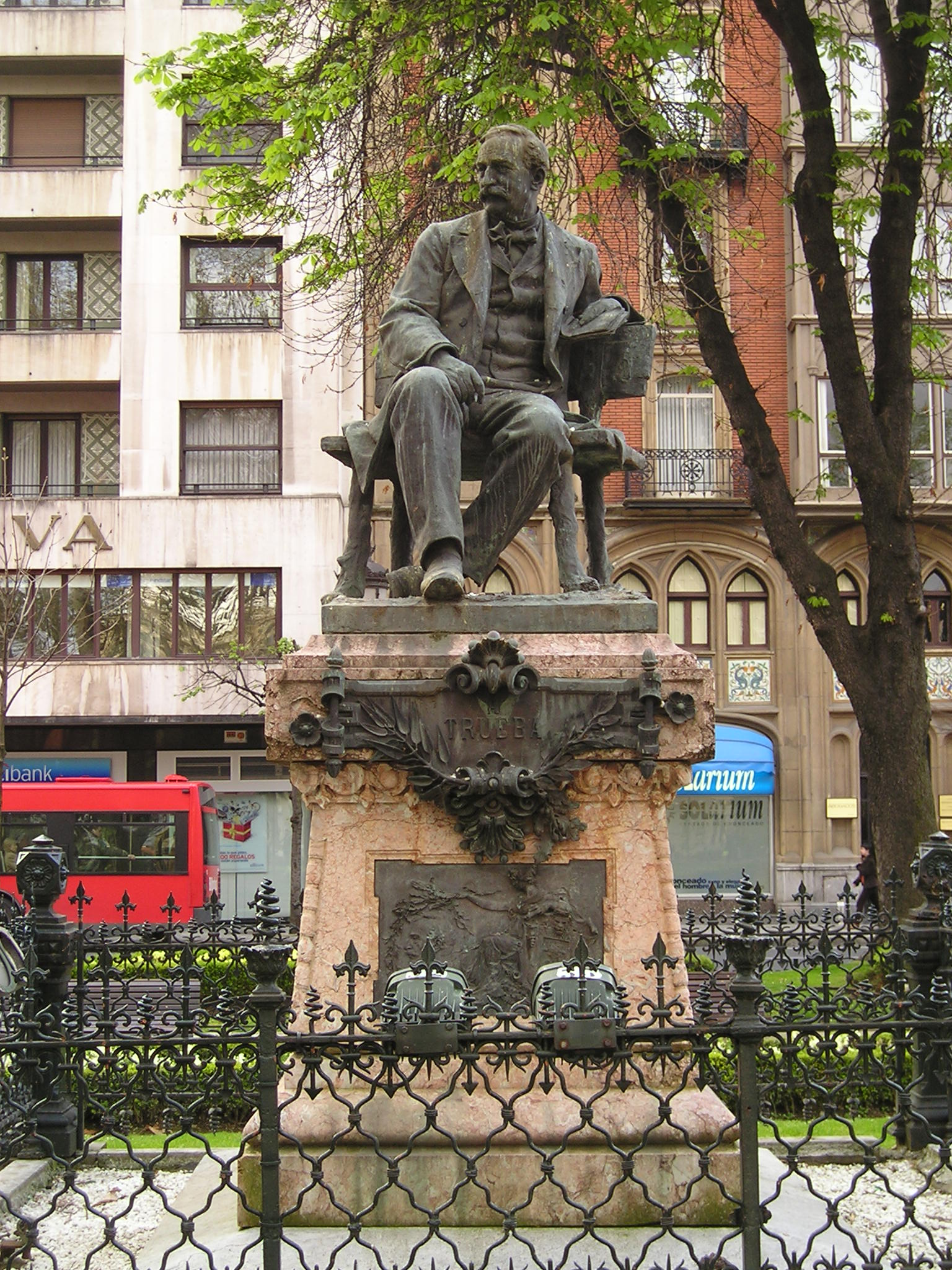 Bronze statue of Antonio Trueba